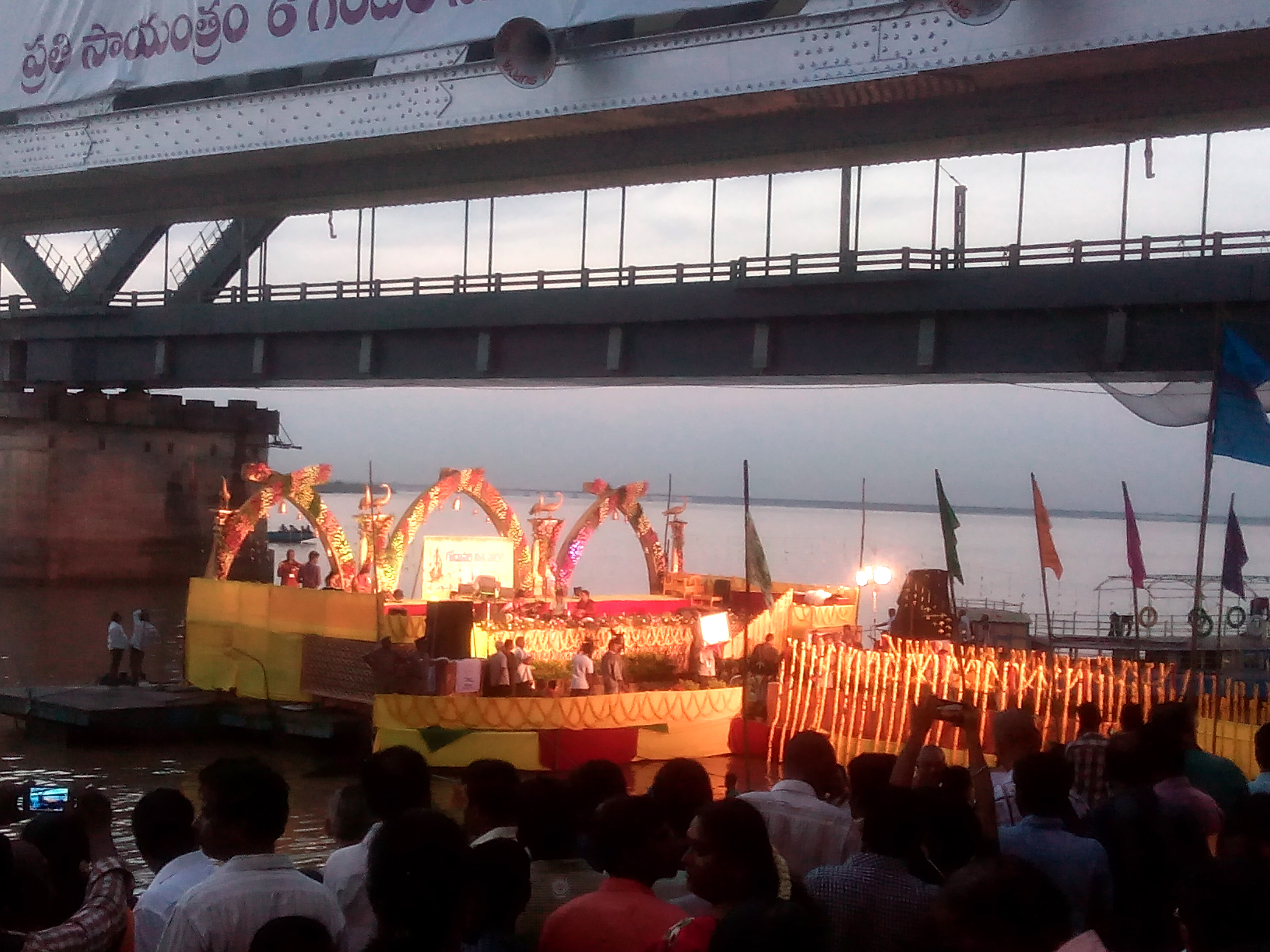 Rajamandry Godavari Pushkaralu 2015 (Godavari Kumbhamela)